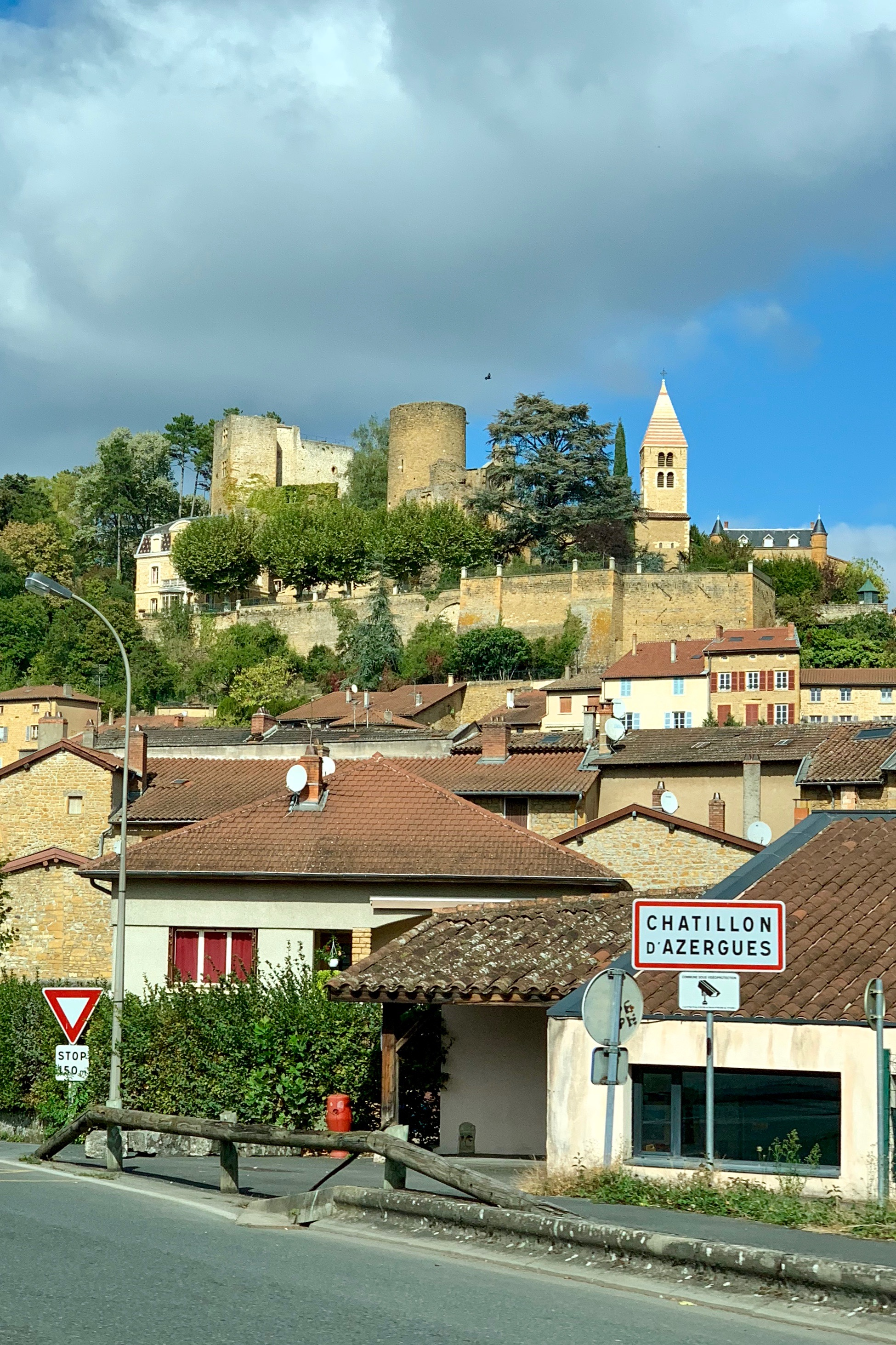 Chatillon d'Azergues picture